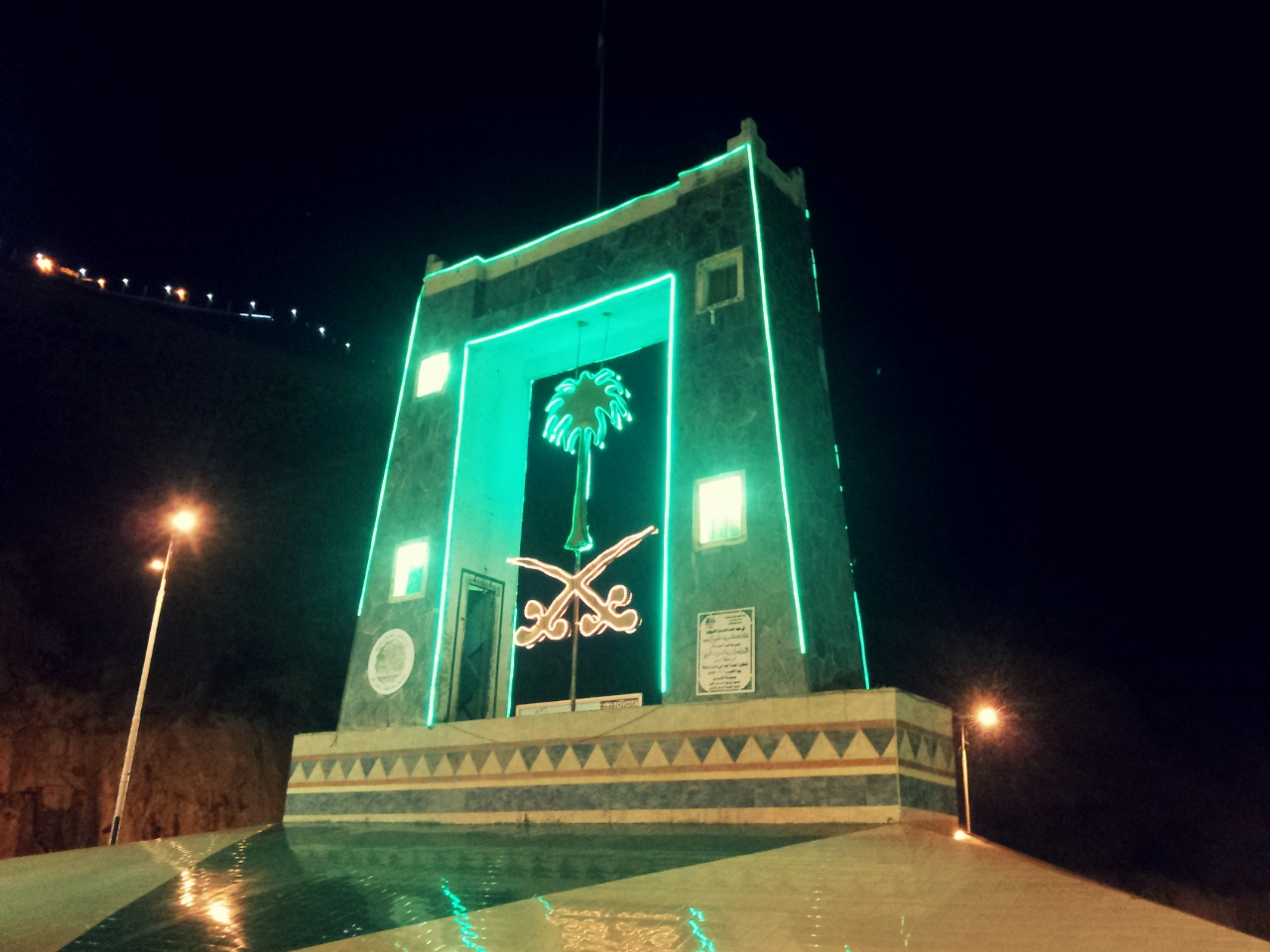 رجال ألمع - الشعبين